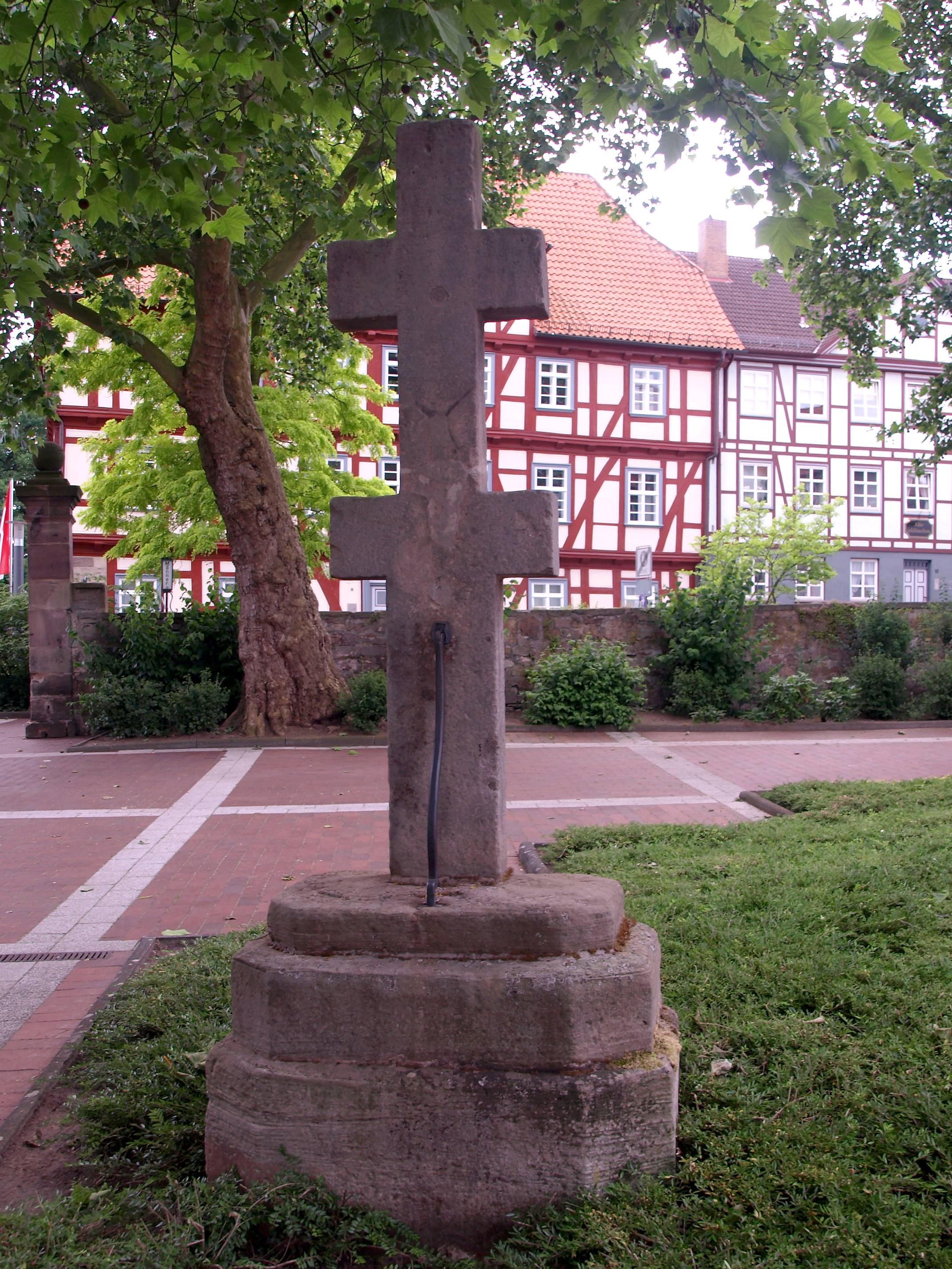 Patriarchal cross at the entrance to monastery borough in Bad Hersfeld